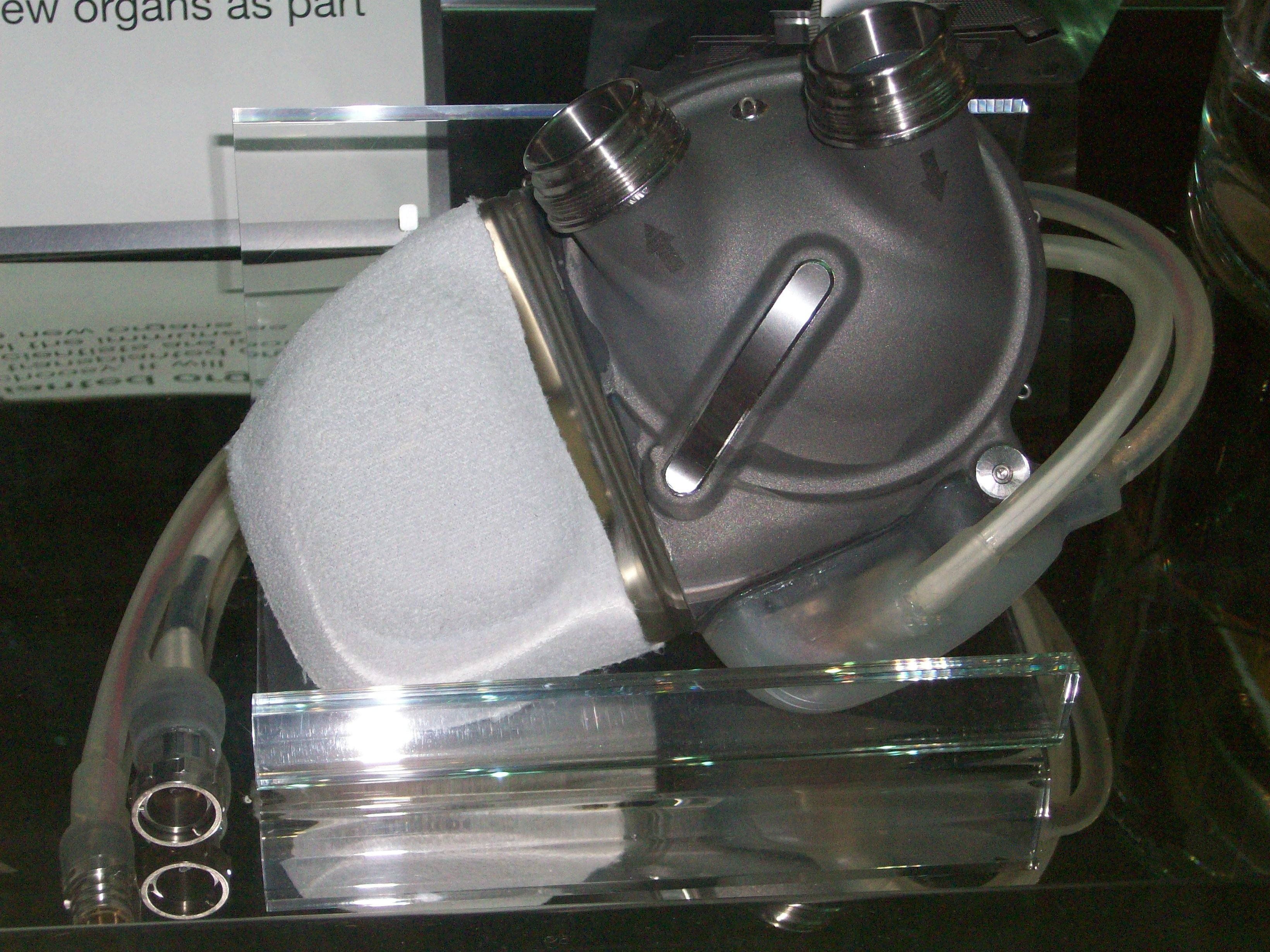 An image of an artificial heart exhibited at London science museum